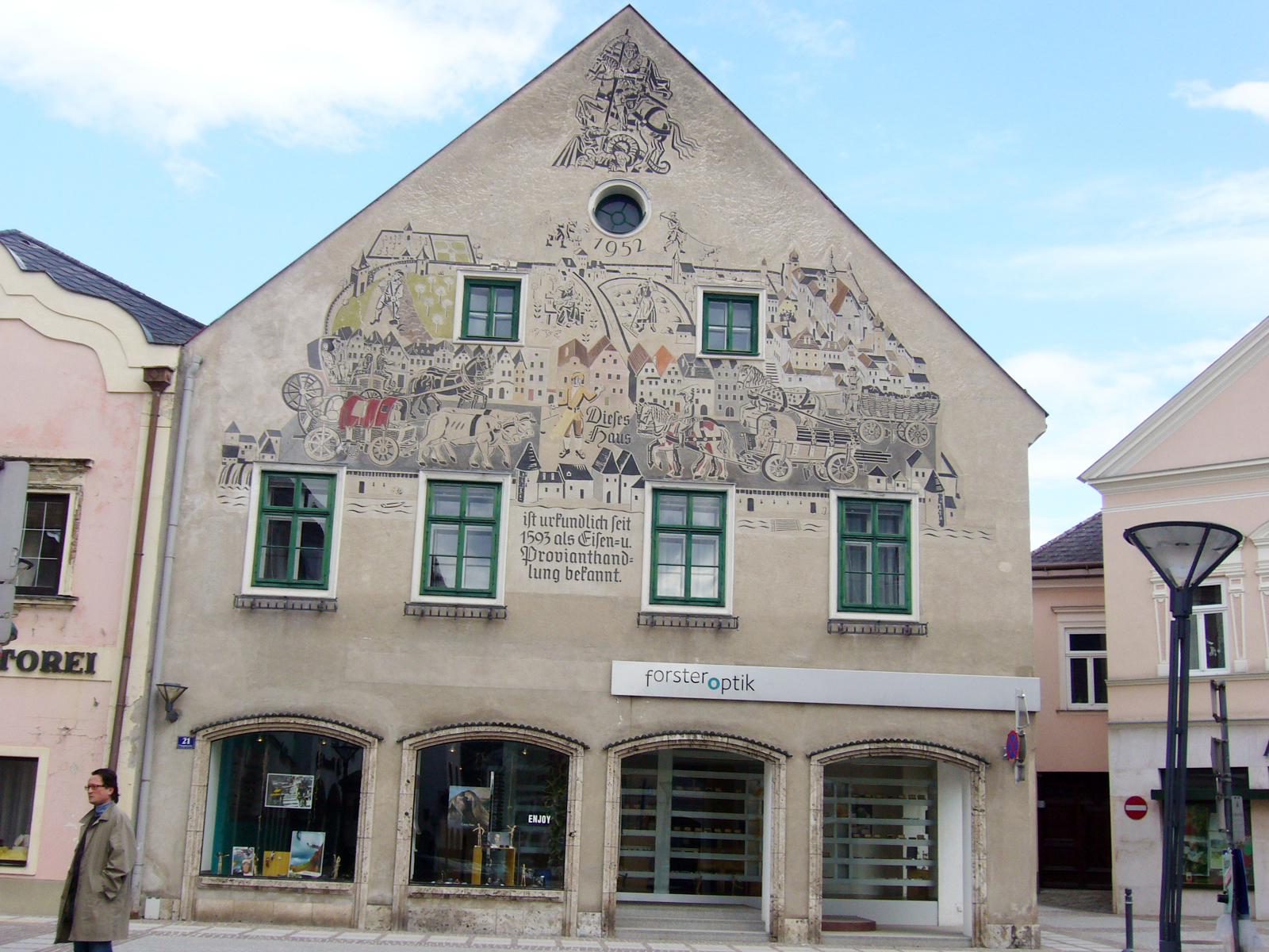 Former Eisen- und Provianthandelshaus in Scheibbs, Austria